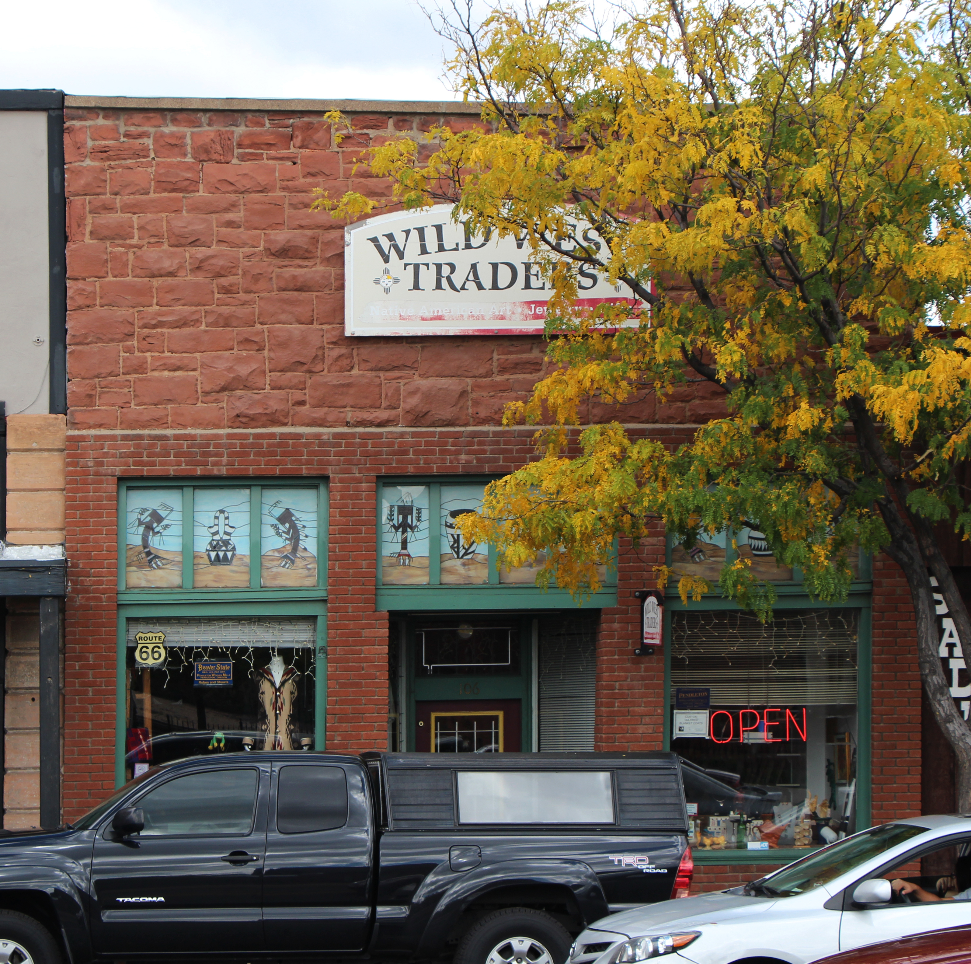 Brannen Building #3, 106 Route 66, Flagstaff, AZ